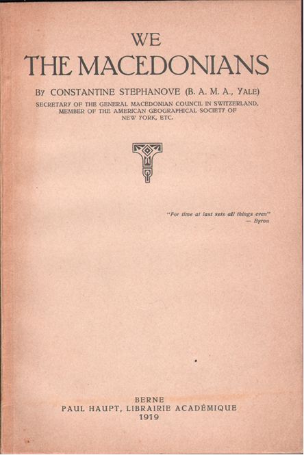 We the Macedonians Constantine Stefanove